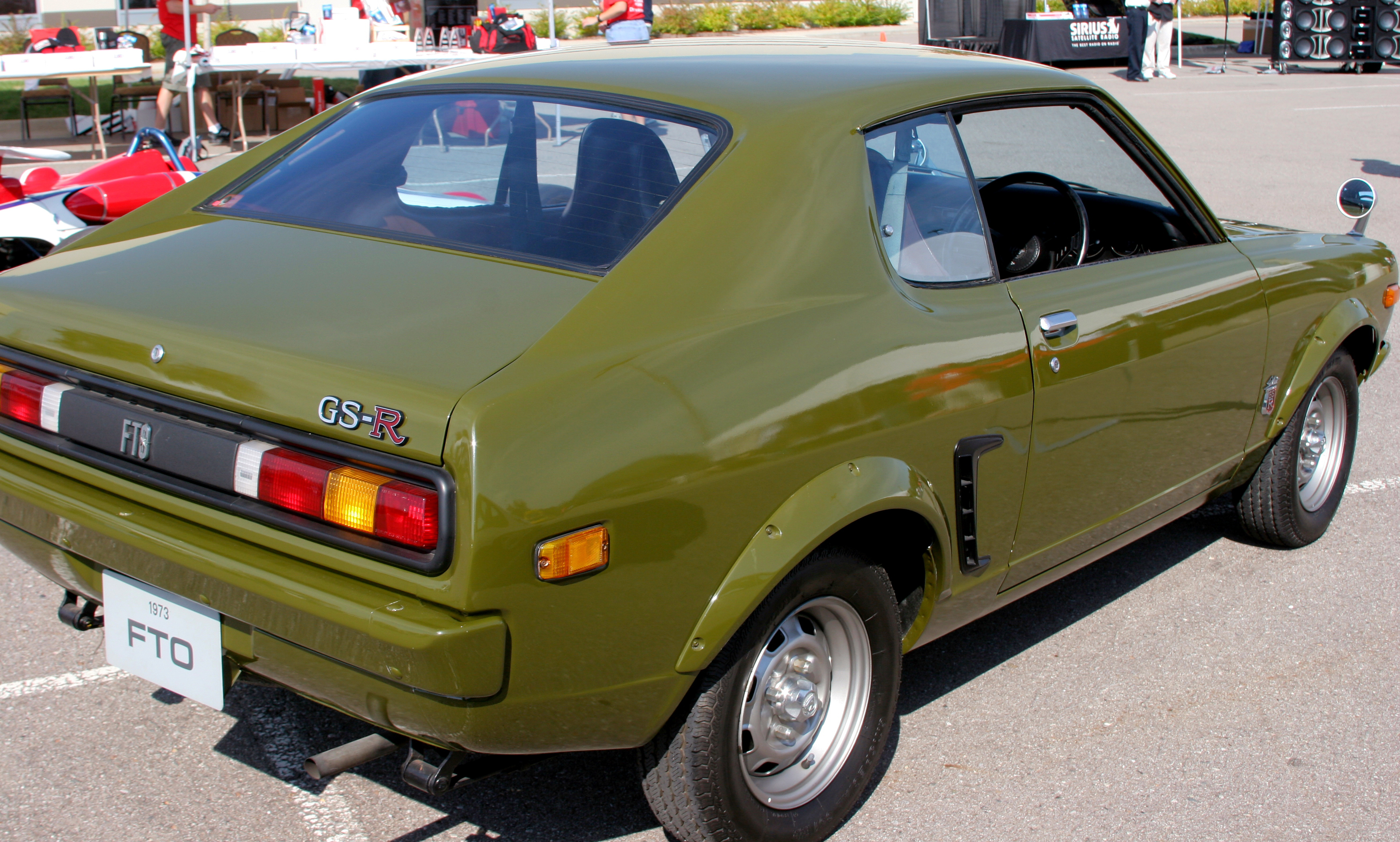 1973 Mitsubishi Galant FTO 1600 GSR belonging to Mitsubishi, here displayed in Detroit. Usually this car lives at the museum for Mitsubishi "Passenger Car Engineering Center" in Okazaki-city, Aichi, Japan